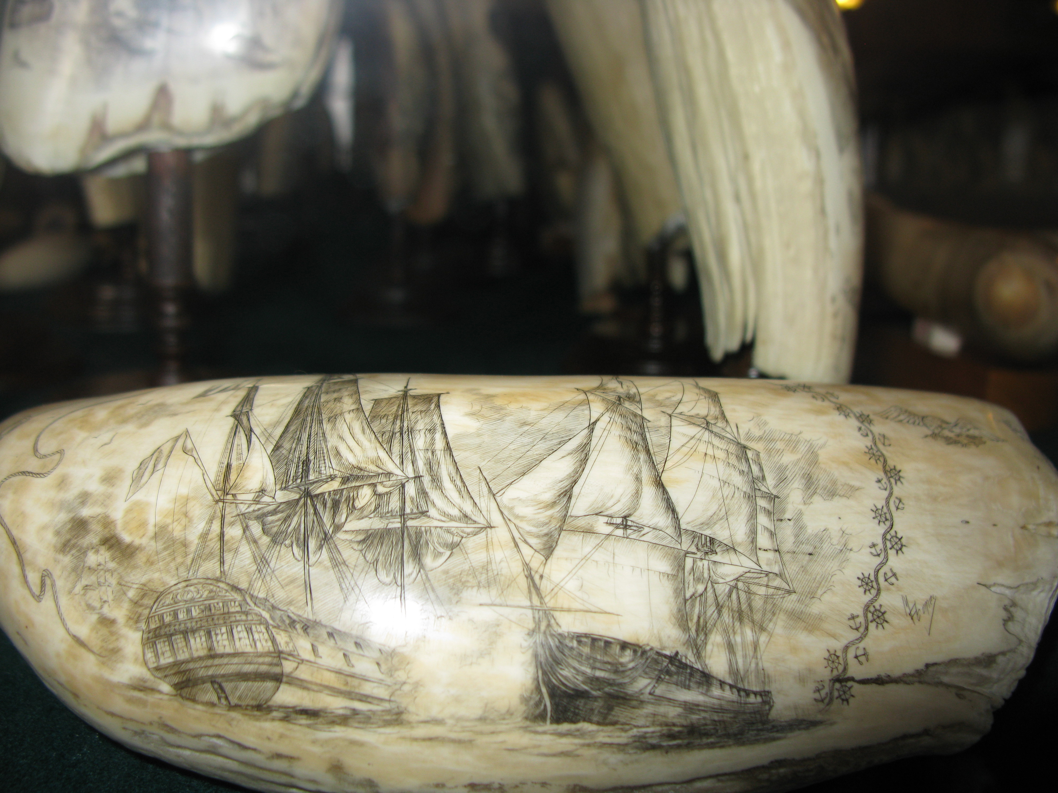 Detail of scrimshaw on a whale tooth, from the Scrimshaw Museum on Horta (Azores)